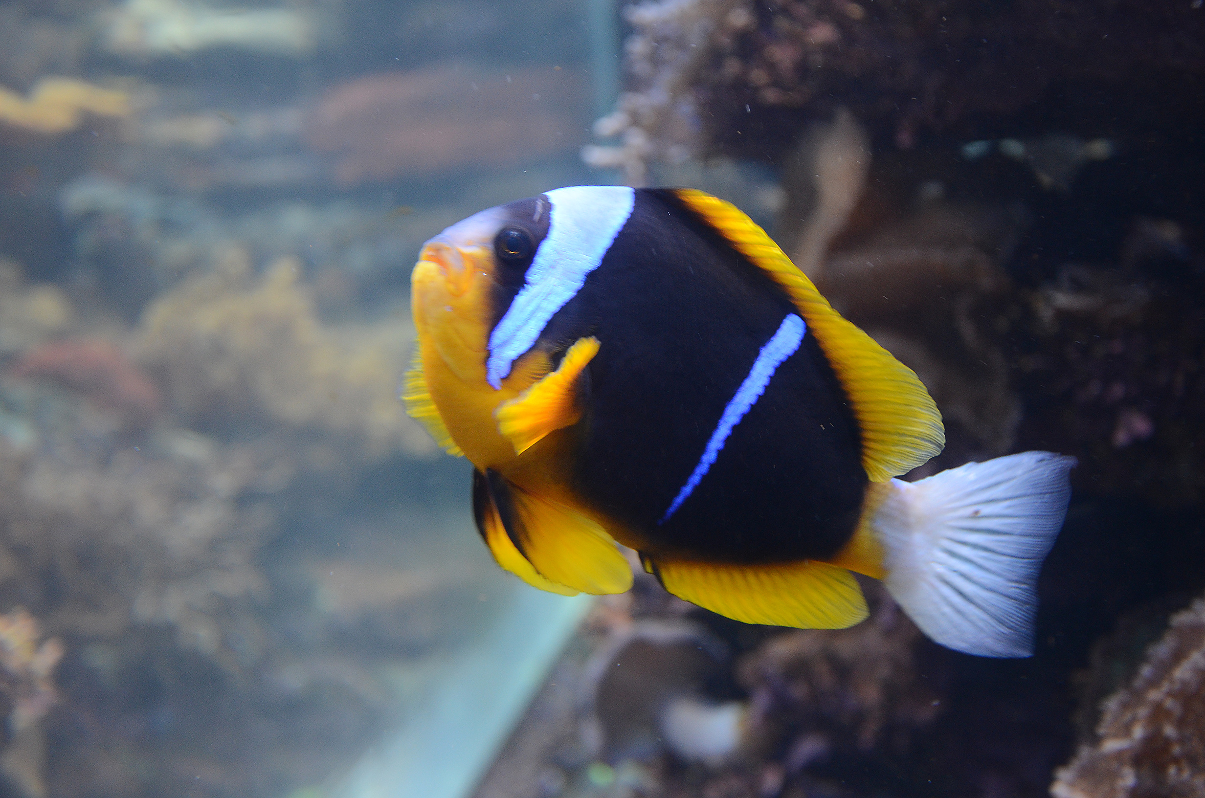 Amphiprion allardi in UShaka Sea World